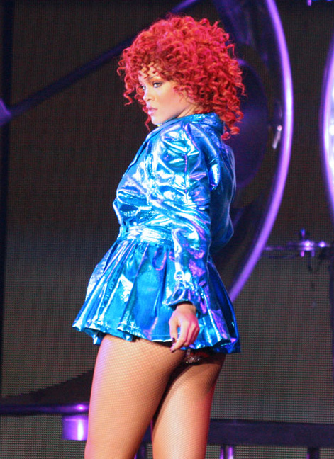 Rihanna Live at Target Center on her LOUD Tour.